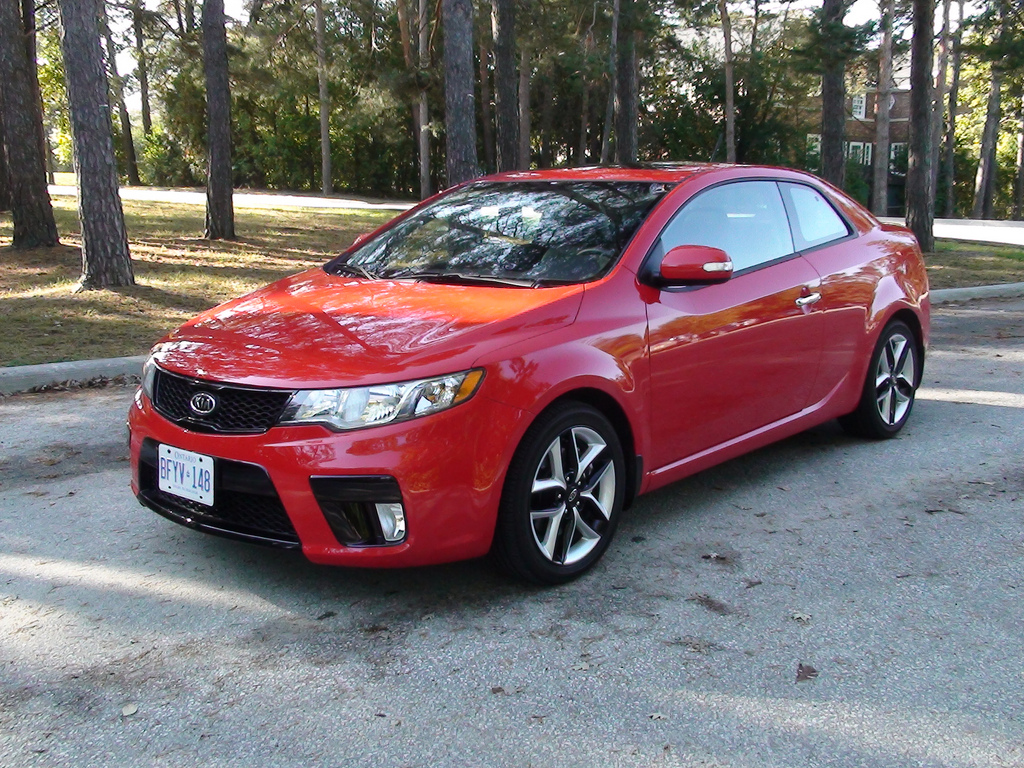 2010 Kia Forte Koup.